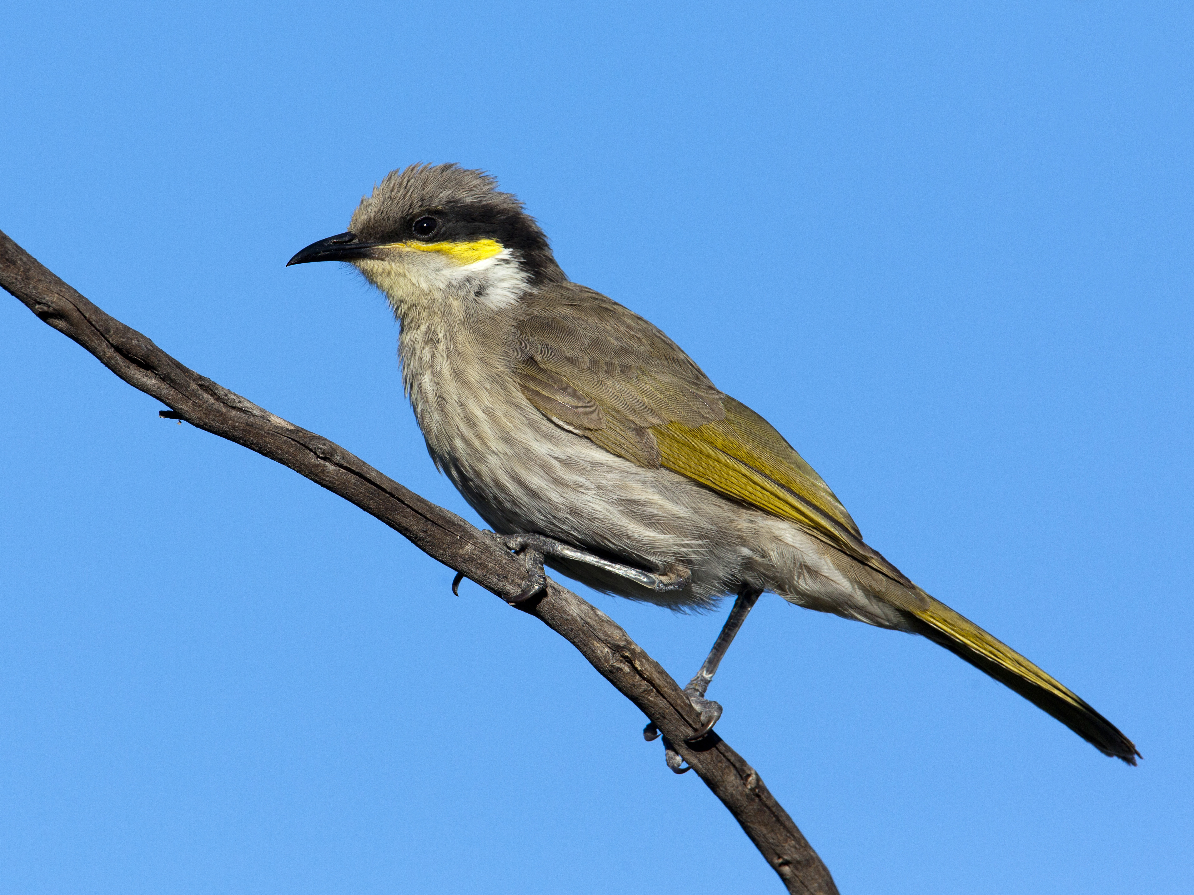 A quite common garden bird in my area. This looks like a younger bird because of the yellow gape.